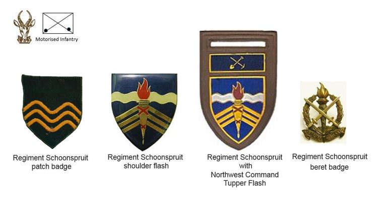 SADF era Regiment Schoonspruit insignia ver 2